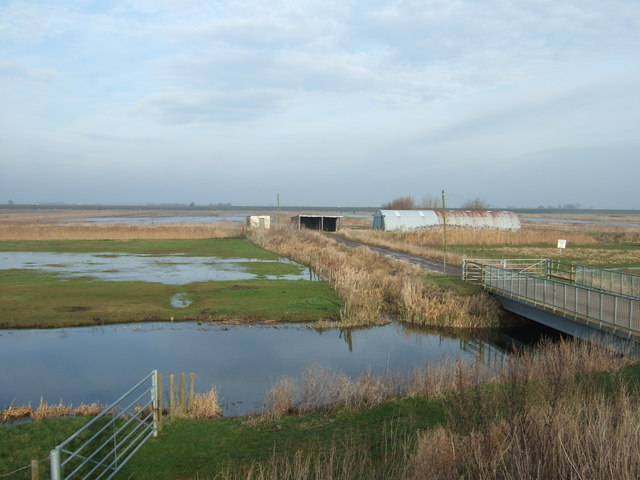 Bridge, Guyhirn Wash - The Nene Washes Bridge over Moreton's Leam leading to March Farmers sheds prior to spring flooding. The Nene Washes is an area of seasonally flooding wet grassland (washland) lying between the south bank of the River Nene and another bank south of Morton’s Leam and stretching for 12 miles from Peterborough to Guyhirn. The washes have local village names, Guyhirn Wash, Whittlesey Wash etc but are collectively known as The Nene Washes. One of the earliest Fenland drains, Morton’s Leam, dug in the late 15th century flows in almost a straight line parallel to the current course of the River Nene through the washes. At times of potential flooding along The Nene Valley water is channelled from The River Nene into Morton’s Leam and onto the washes. Water is released from The Washes via a sluice gate near Guyhirn and back into the River Nene at low tide when the threat of flooding the surrounding fenland has subsided.